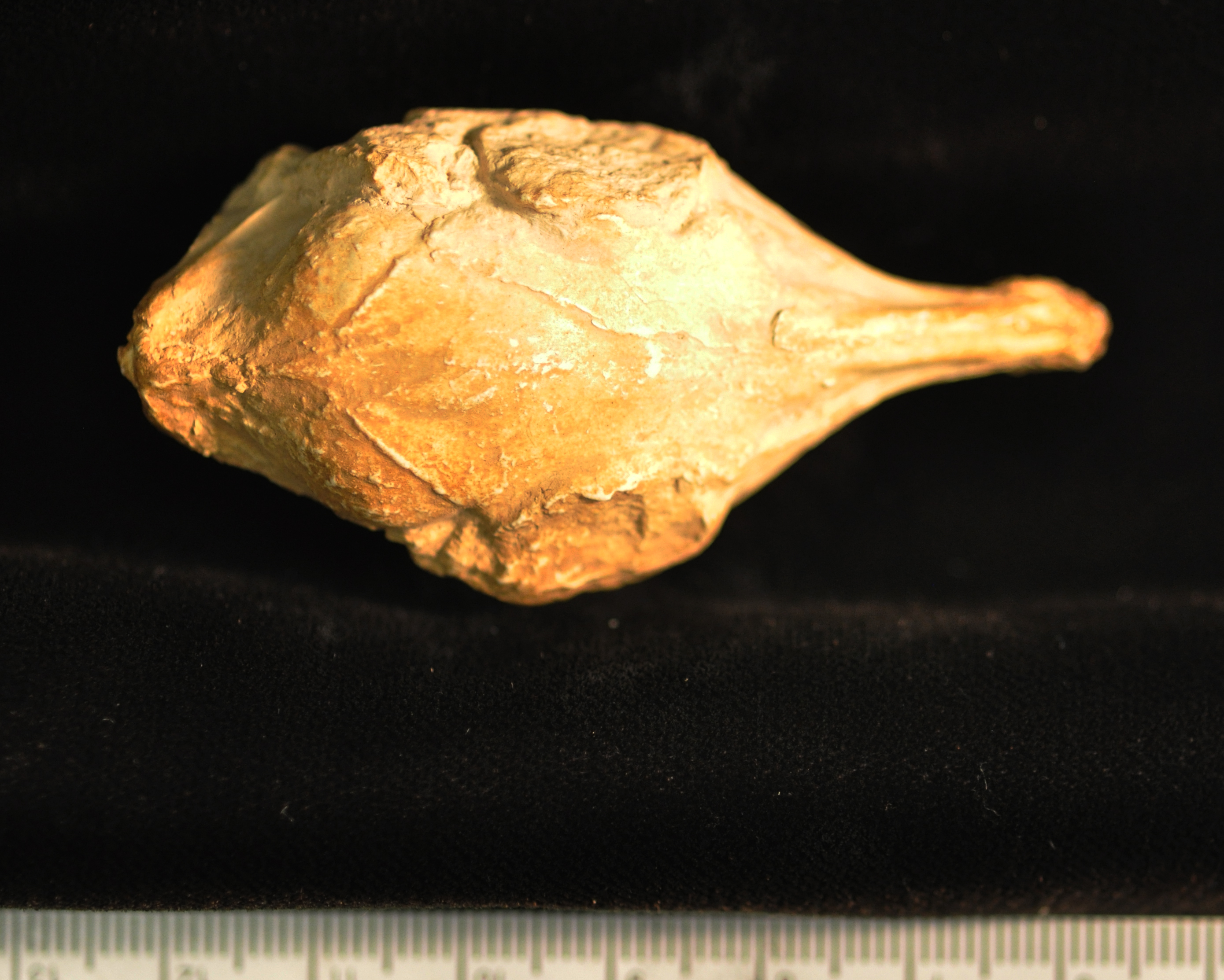 Cast of skull of Hypisodus retallacki from Oligocene (Orellan) Cedar Creek Formation in Horsetail Creek, Colorado, in anterior view. Cast in University of Colorado Museum, Boulder (39032), original in University of Wyoming Museum, Laramie (13933)